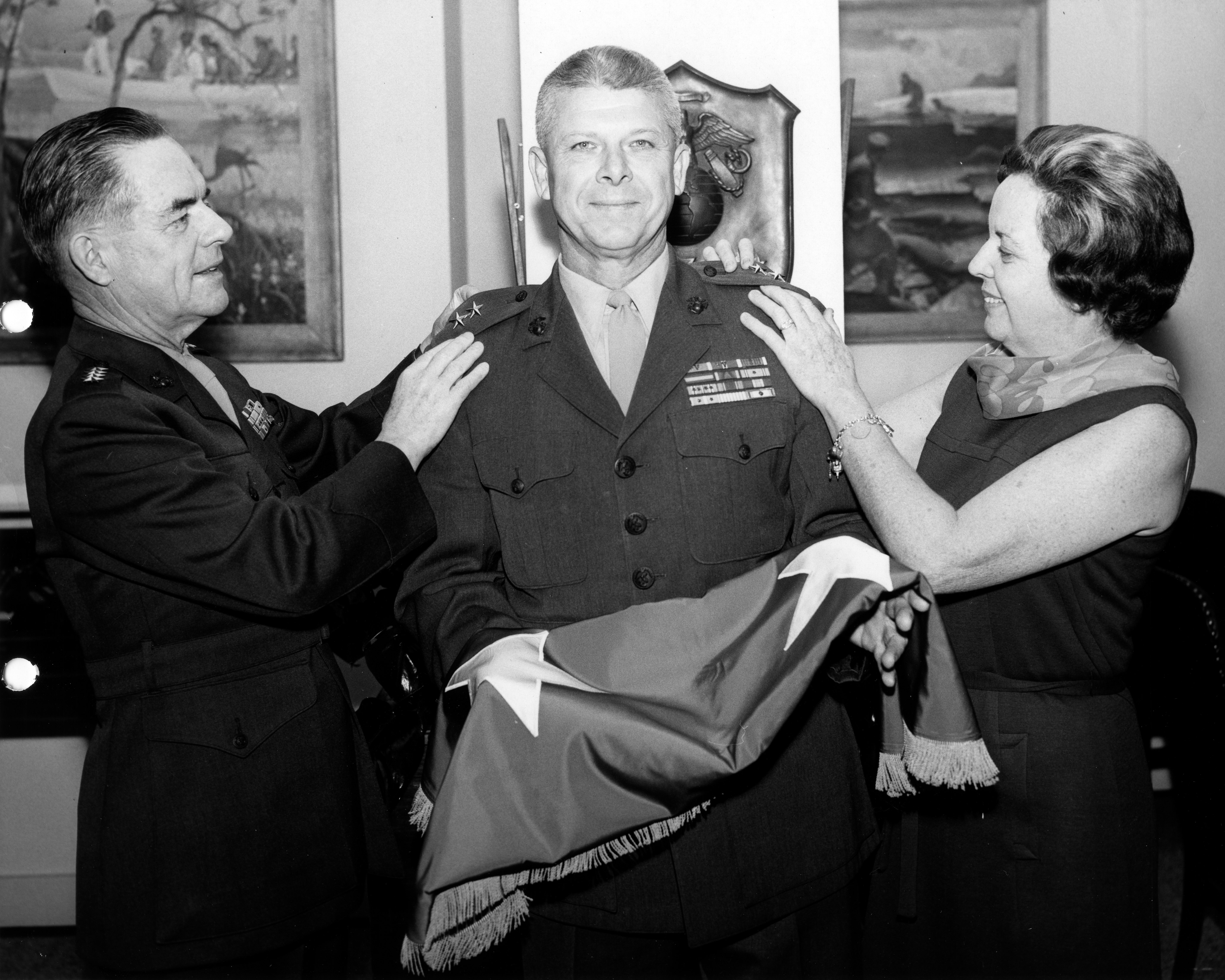 SECOND STAR - General Wallace M. Greene, Jr., Commandant of the Marine Corps, left, and Mrs. English pin new two star insignia on the shoulders of Major General Lowell E. English during promotion ceremonies in the Office of the Commandant at Marine Headquarters in Washington, D.C. General English who has just returned from duty in Vietnam, has been assigned duty as Commanding General, Marine Corps Recruit Depot, San Diego, California.